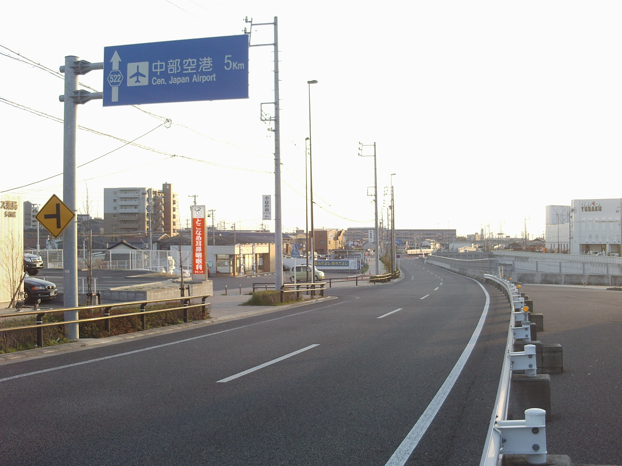 Aichi prefectural road No.522 in Nishikicho, Tokoname, Aichi.